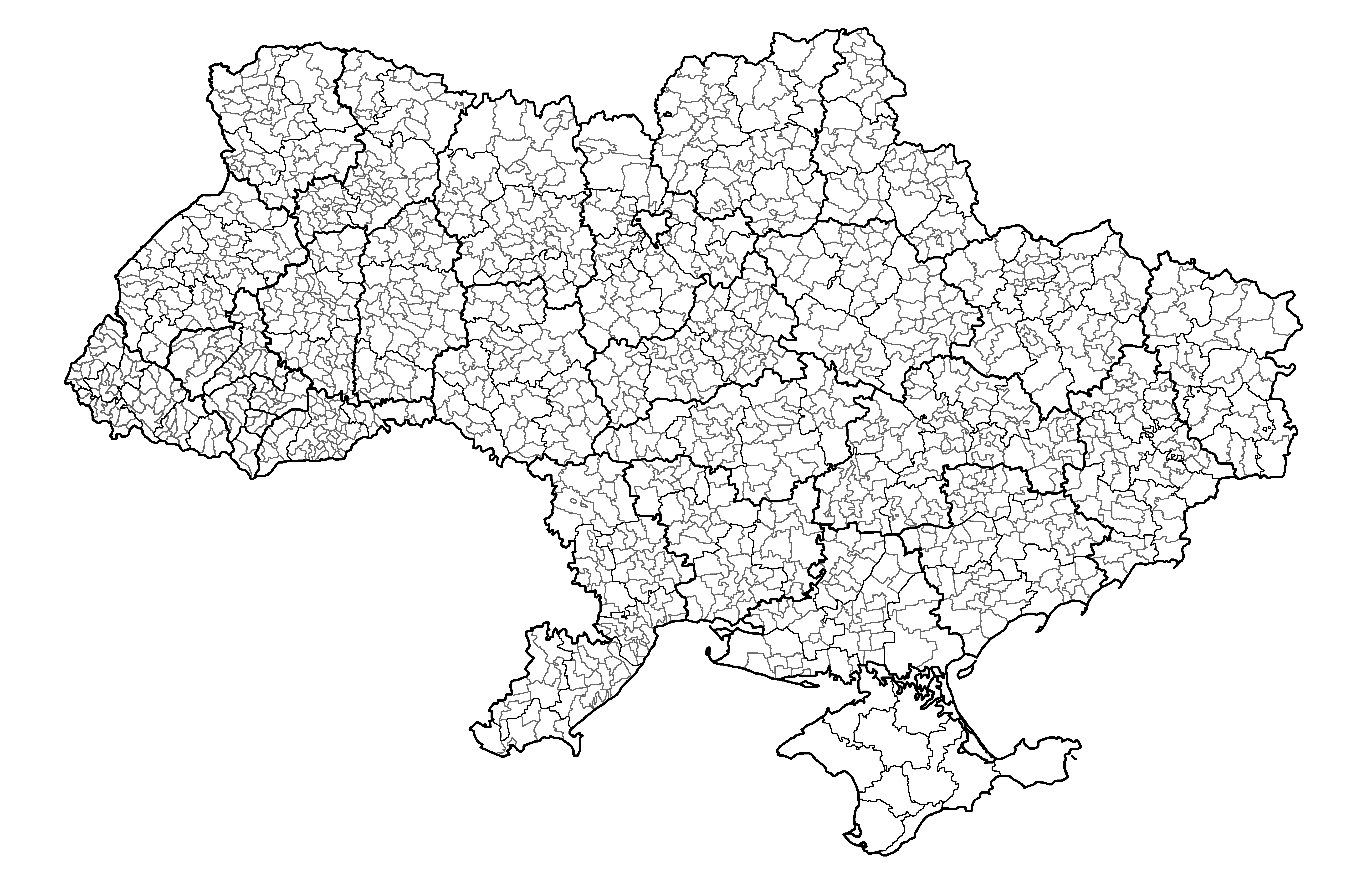 Об'єднані територіальні громади України з 2020